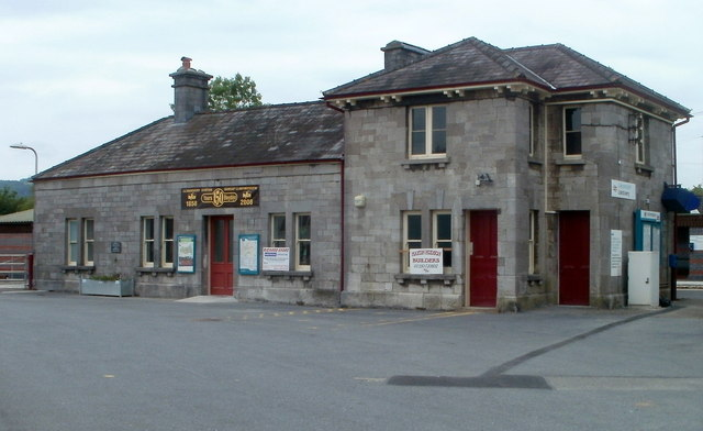 Llandovery railway station building. A notice on the wall proudly proclaims the 150th anniversary of Llandovery station in 2008. The station was opened in 1858 by the Vale of Towy Railway company as the terminus of a branch from Llandeilo. The station is now part of the Heart of Wales line from Swansea to Shrewsbury.